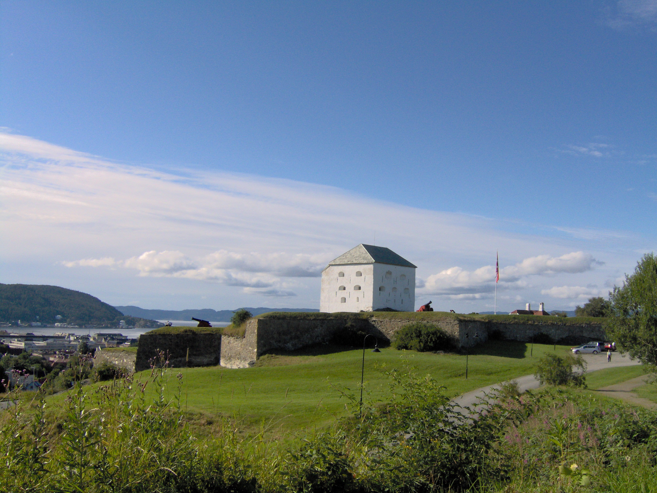 Kristiansten fortress in Trondheim